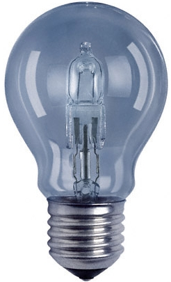 Halogen Energy Saver lamp -Brilliant light -Energy savings up to 30% -Cost savings up to 65% -Lamp lifetime 2000h -No blackening of the bulb, constant bright light over the whole lifetime -Natural light color -Dimmable -No WEEE problem, No mercury -CO² savings up to 100 kg/lamp